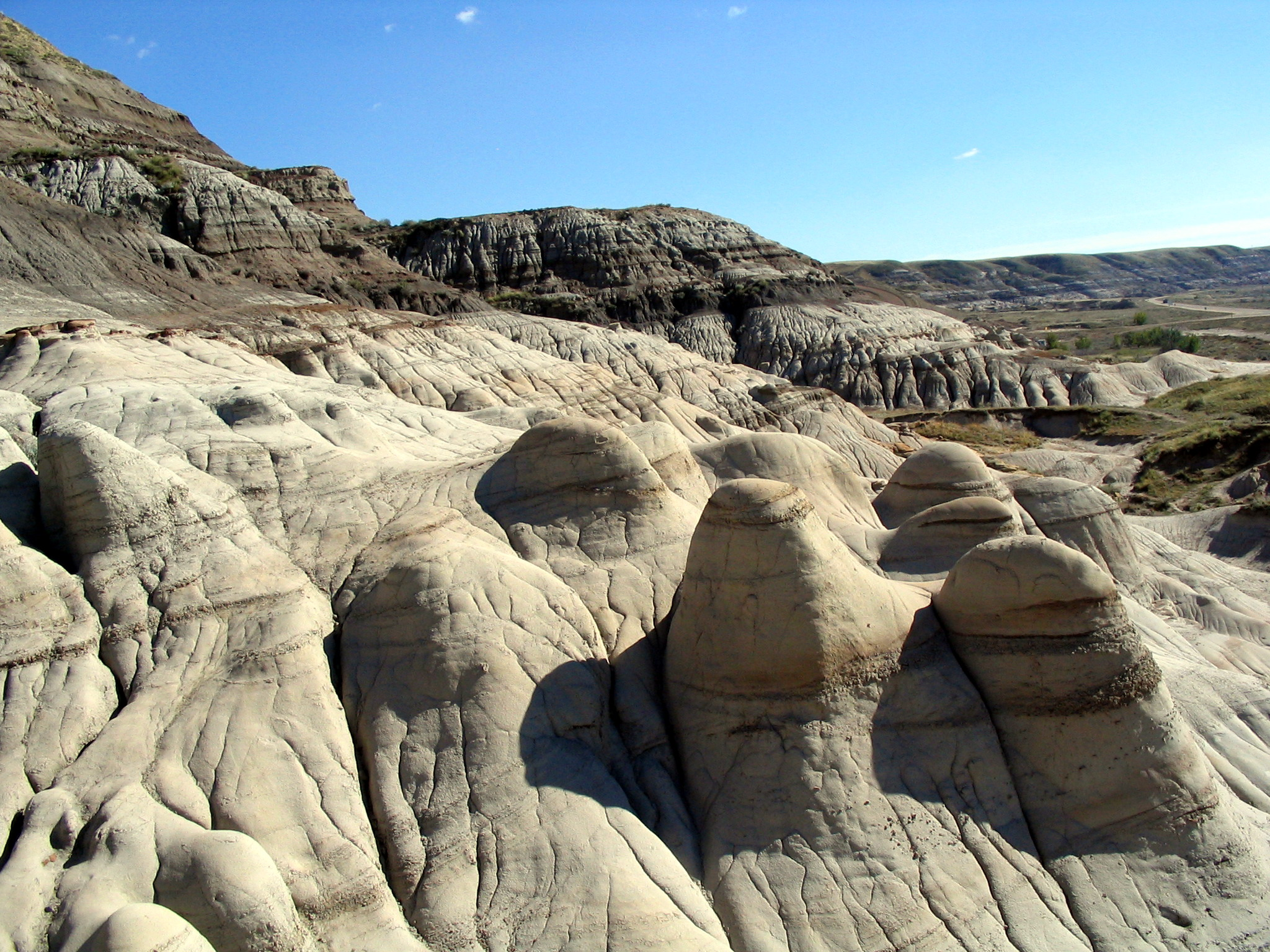 Drumheller in the Canadian Badlands.